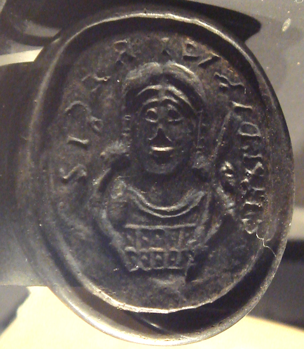 Seal_of_Childeric_I_Tournai tomb (copy of the original, offered to the museum "by M.Lecavelier de Caen")